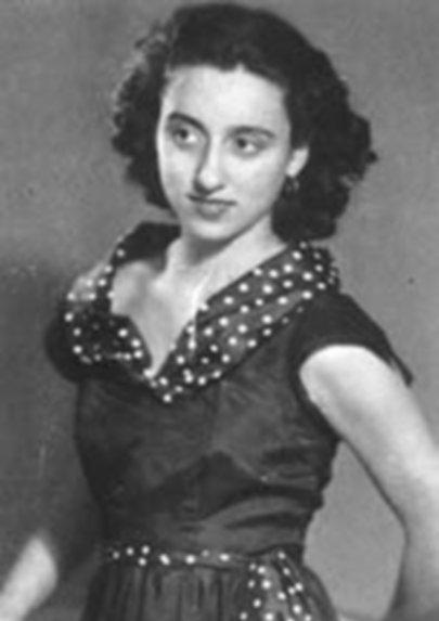 Fairuz in the 50's